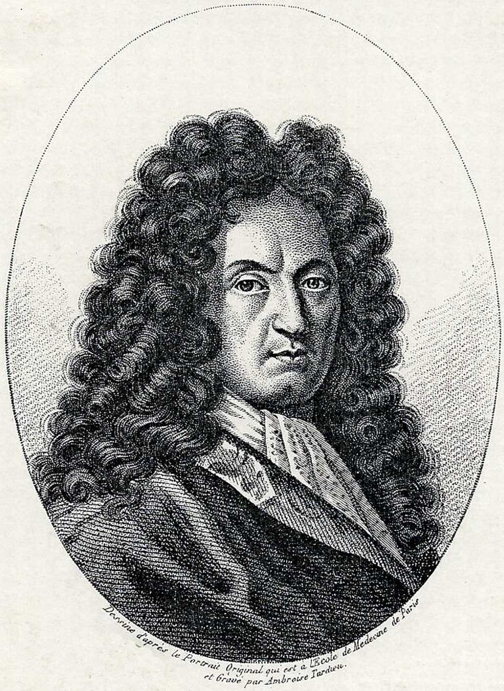 Jean François Clément Morand (1726-1784) French chemist, mineralogist and Physician